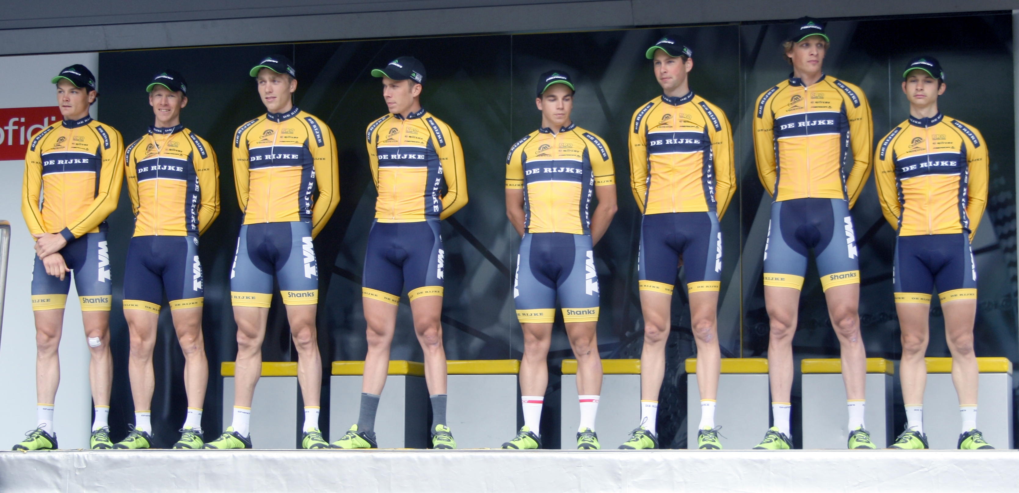 Team De Rijke at the start of the World Ports Classic 2014 in Rotterdam